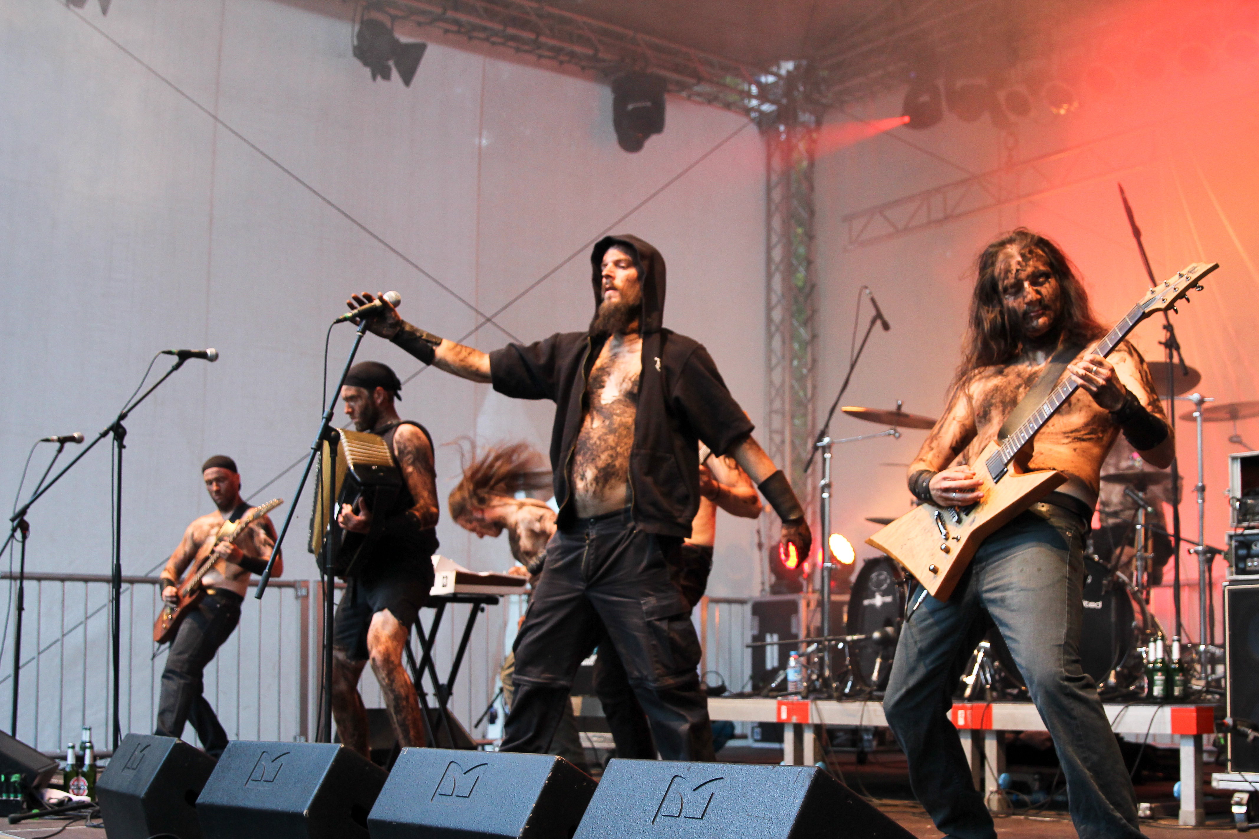 Finsterforst at the Wave-Gotik-Treffen 2014.